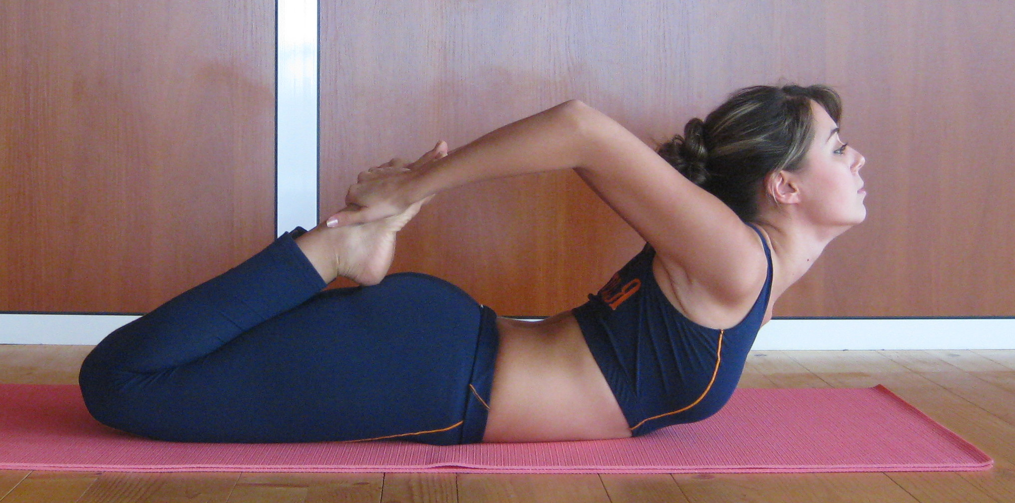 Frog